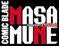 Komikku Bureido Masamune (コミックブレイド Masamune) logo.